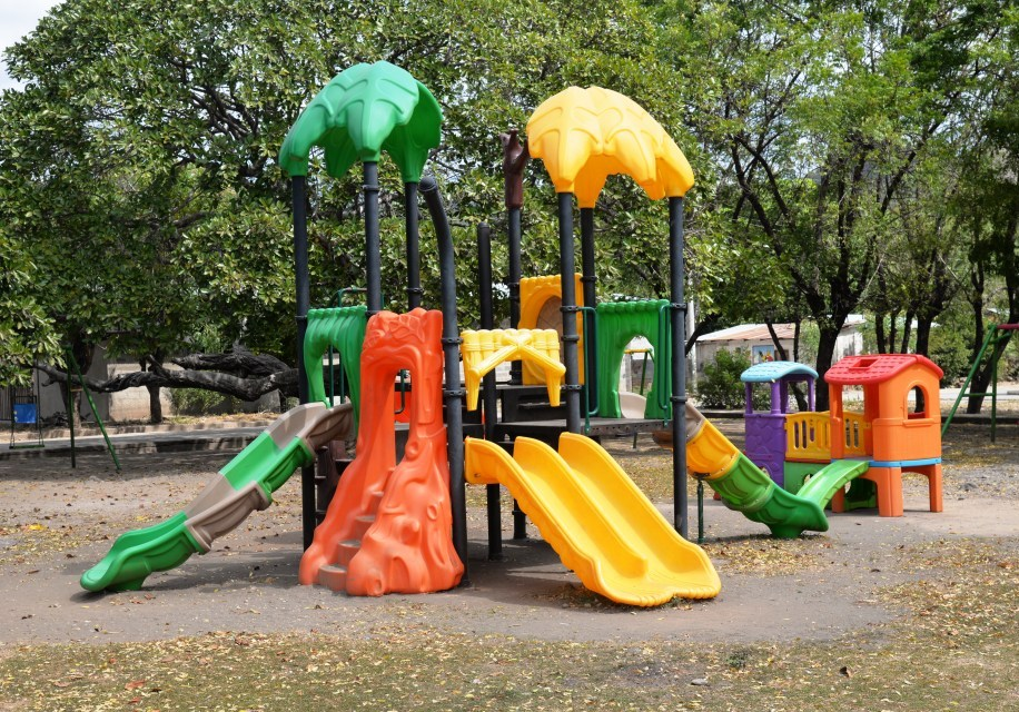 Zona de juego del parque central en Santa Rosa del Peñón, Nicaragua.